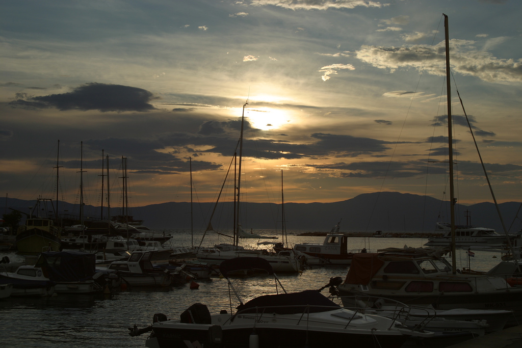 The view from the harbor toward the northwest at sunset. Učka mountains on the right side. Malinska, Island Krk, Croatia.